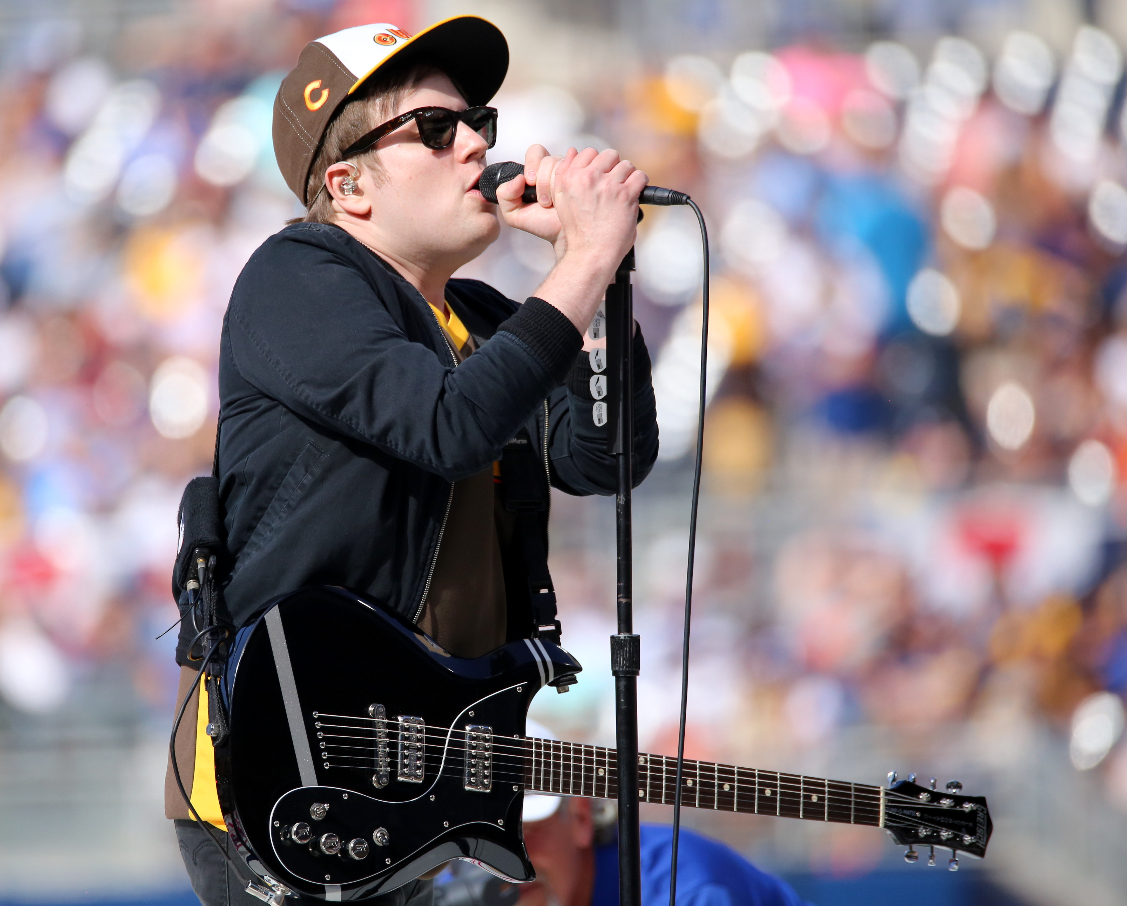 Fall Out Boy's Patrick Stump performs to open the 2016 T-Mobile #HRDerby.